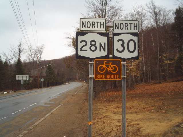 New York State Route 28N heading northbound along the concurrency since Route 30 in Blue Mountain Lake, New York.